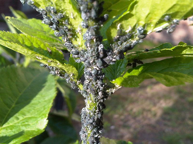 Plant infested with Black bean aphids (Aphis fabae) in London, England.